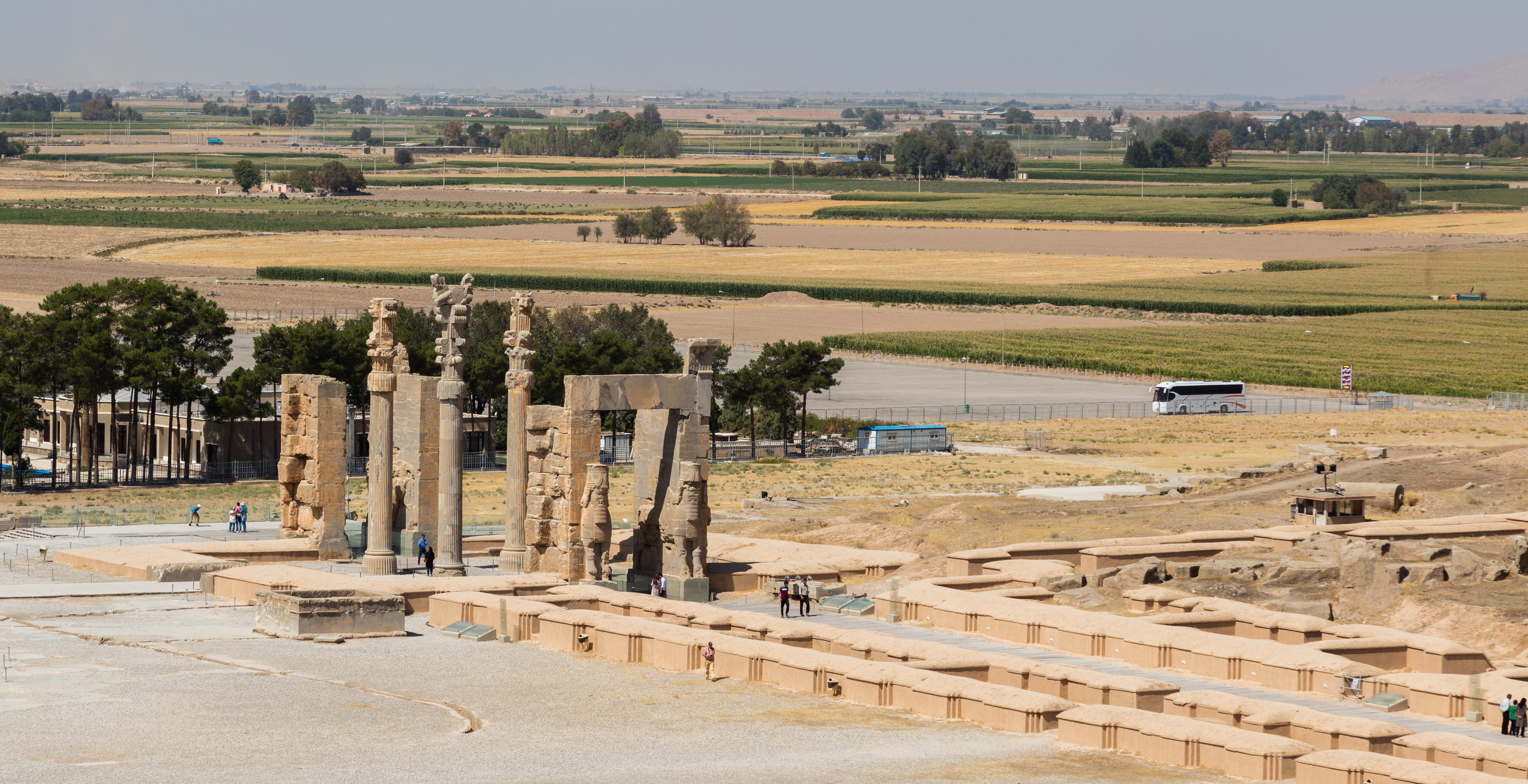 Persepolis, Iran